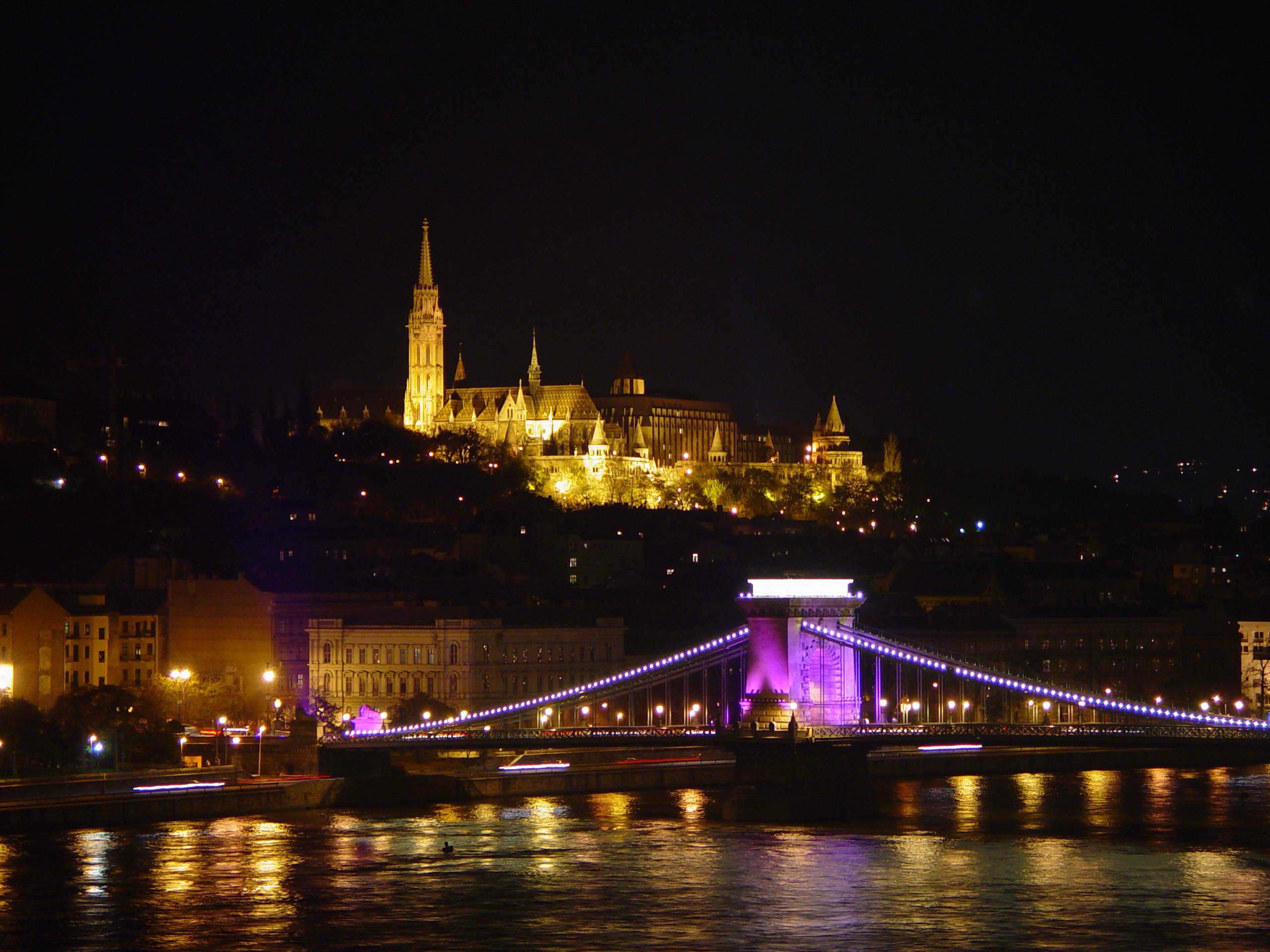 The Chain Bridge across the Danube River, Budapest Hungary. Lit in pink light by GE for breast cancer awareness. Castle Hill in background.